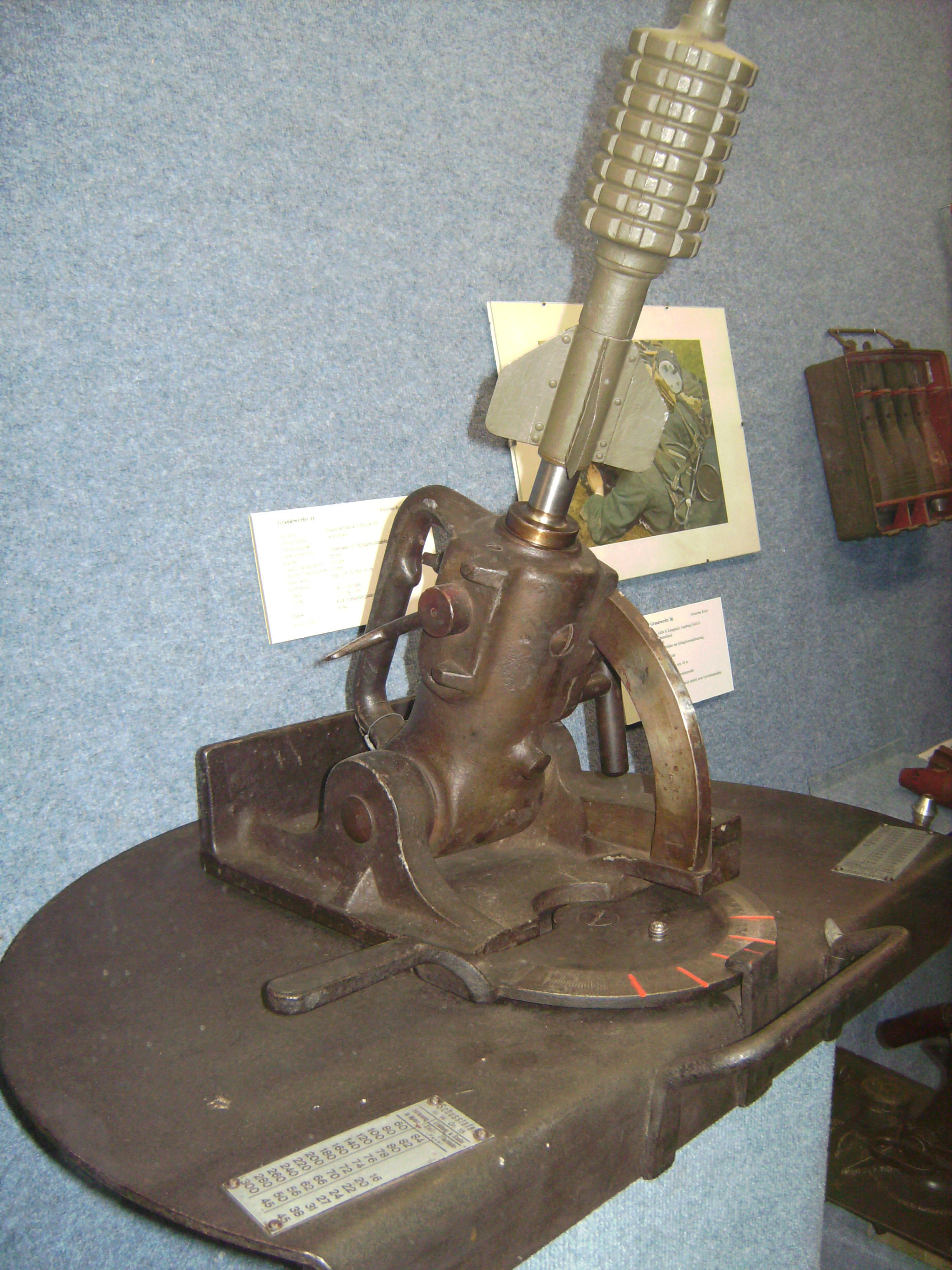 German light mortar M 16